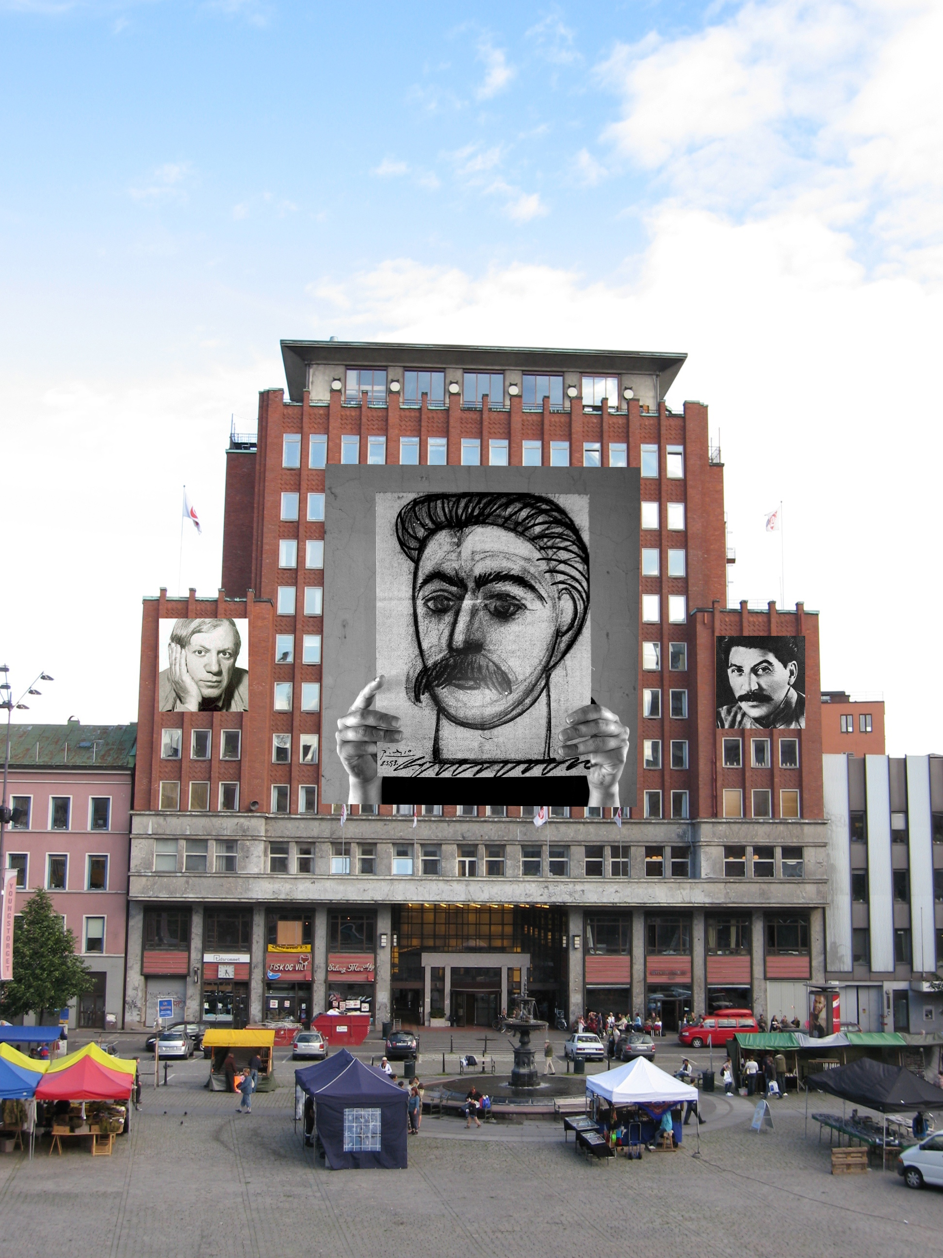 The image shows a production still from Lene Berg's project Stalin by Picasso.